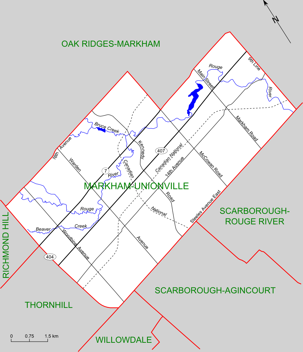 Map of the Ontario federal and provincial riding of Markham-Unionville, boundaries defined in 2003 and adopted federally in 2004 and provincially in 2007.